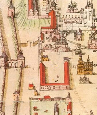 The building for "Prikazy", demolished in 1771. A fragment of the "Kremlenagrad" plan of Moscow Kremlin made in early 17th century.